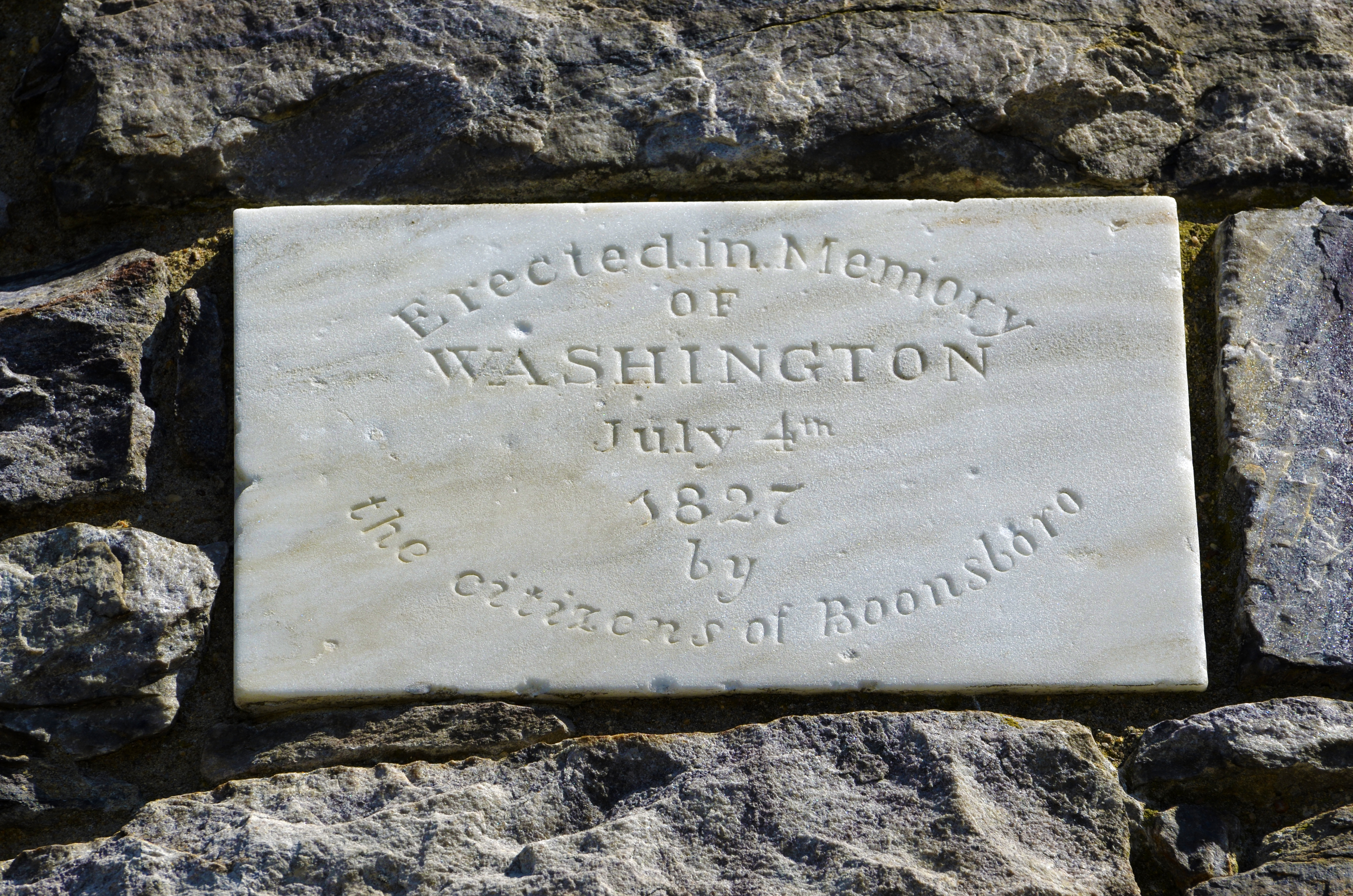 Marker in Washington Monument State Park, Boonsboro, Maryland.